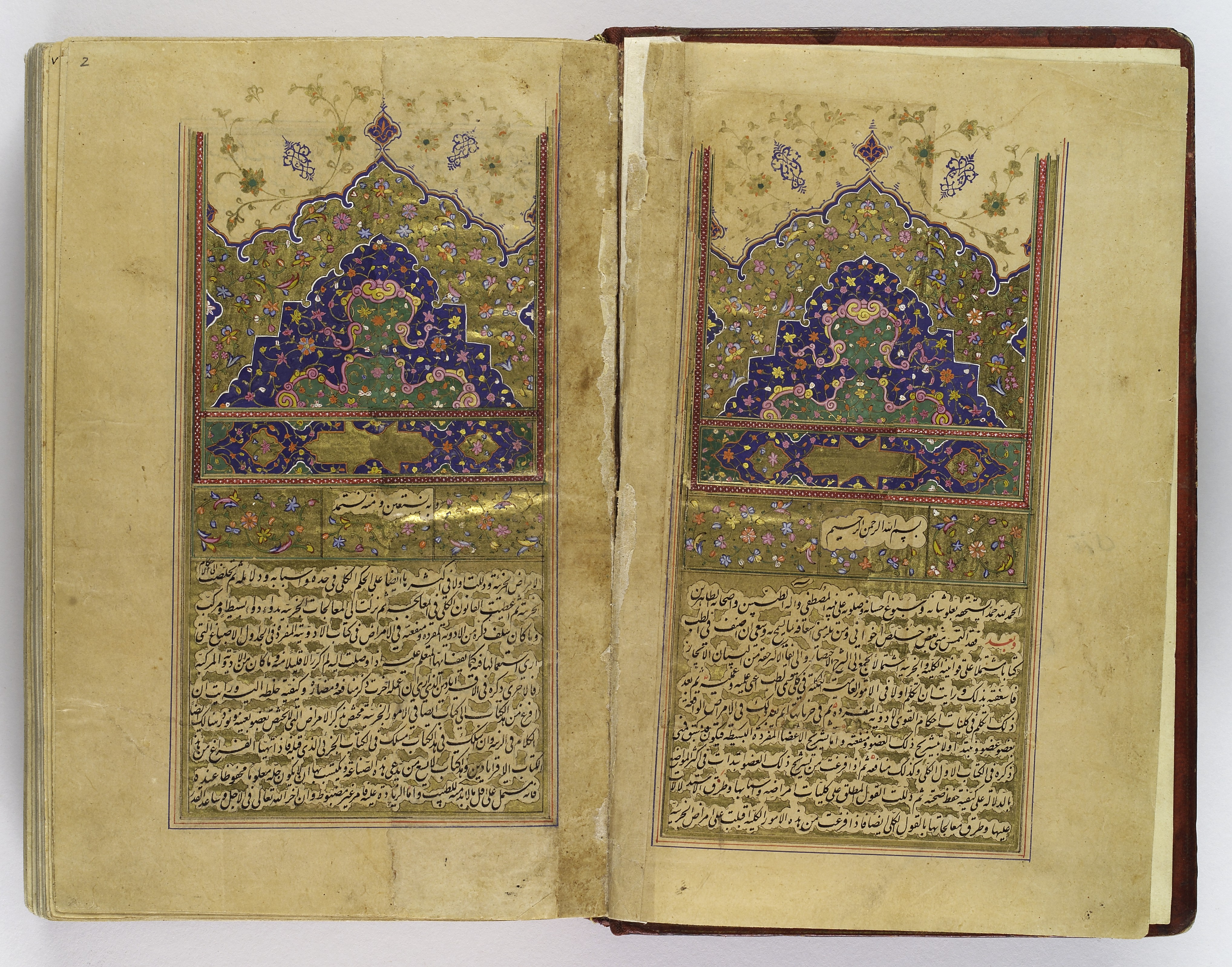 Text and painting Asian Collection Keywords: Arabic; Islamic; Persian; Medicine; Ibn Sina (Avicenna); Middle East; Iraq; Iran